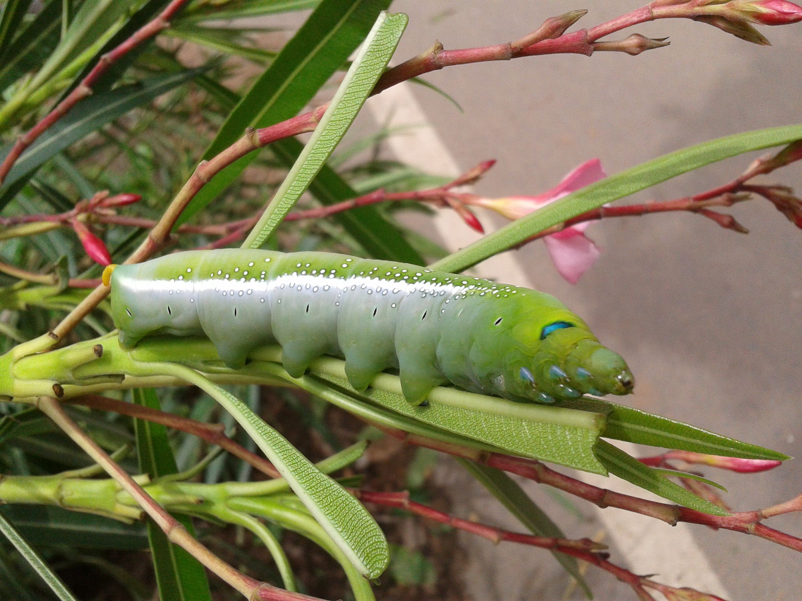 Oleander Hawk Moth caterpillar on Oleander plant